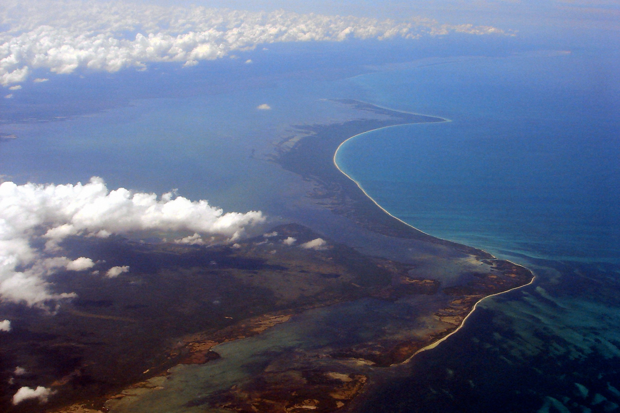 Cabo Catoche, with Holbox Island in the background, Quintana Roo, Mexico